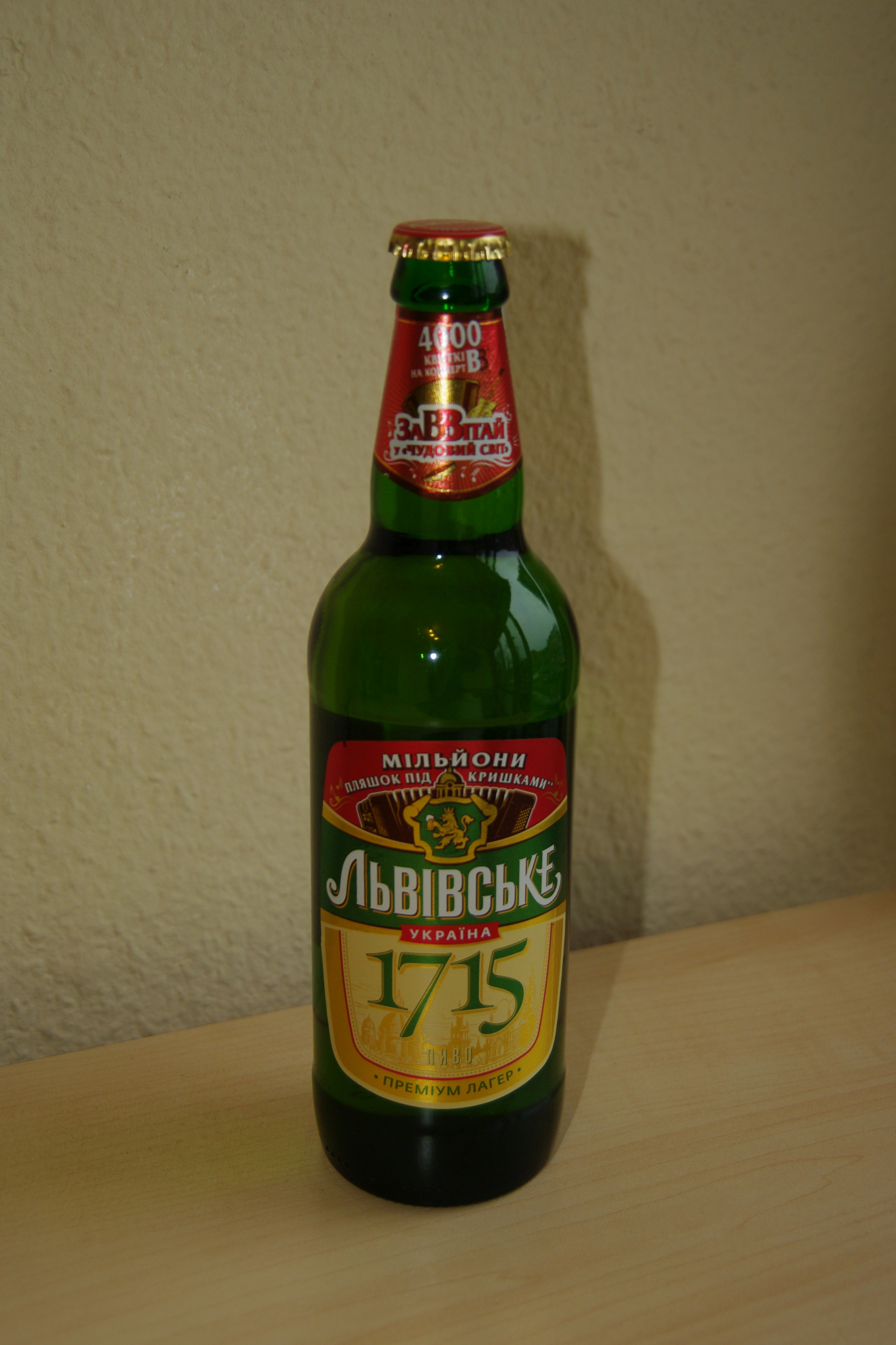 Lvivske 1715 beer